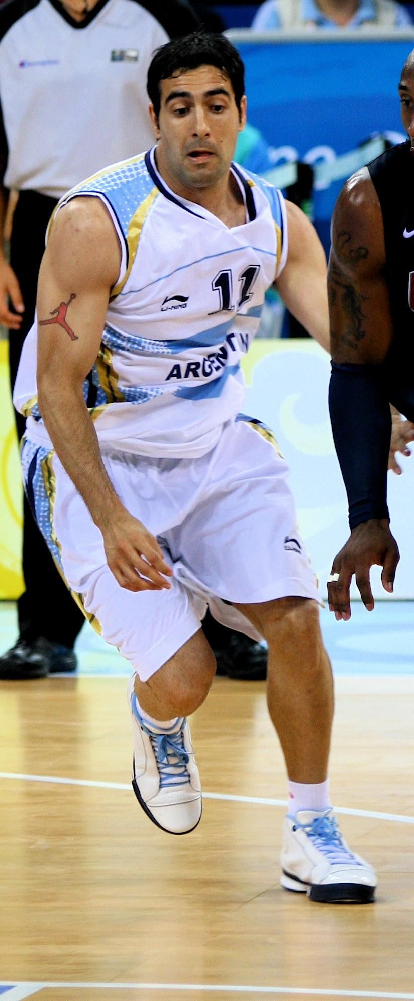 Basketball player, Paolo Quinteros (Argentina)